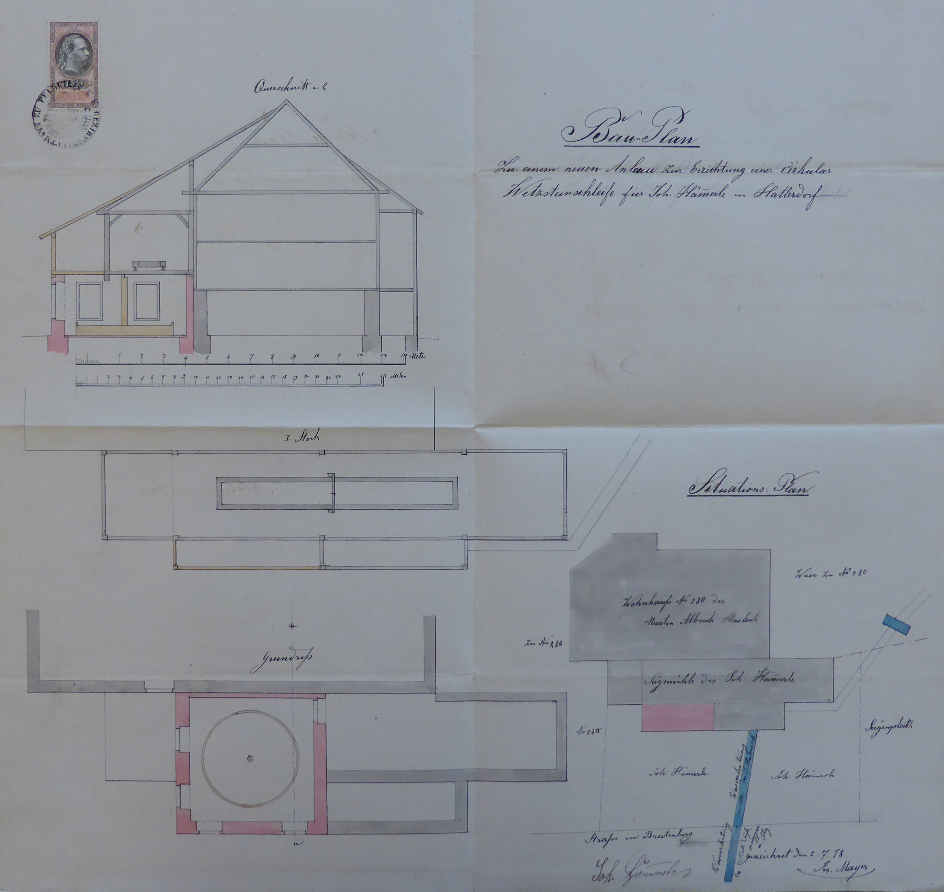 Plan sketch for the planning application of Johann Hämmerle for a Circular Whetstone Loop in Haslach, Dornbirn, Vorarlberg, Austria.